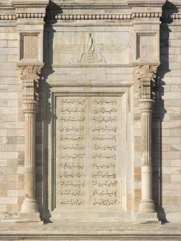 Front facade of the mausoleum of Ferdowsi in Toos.